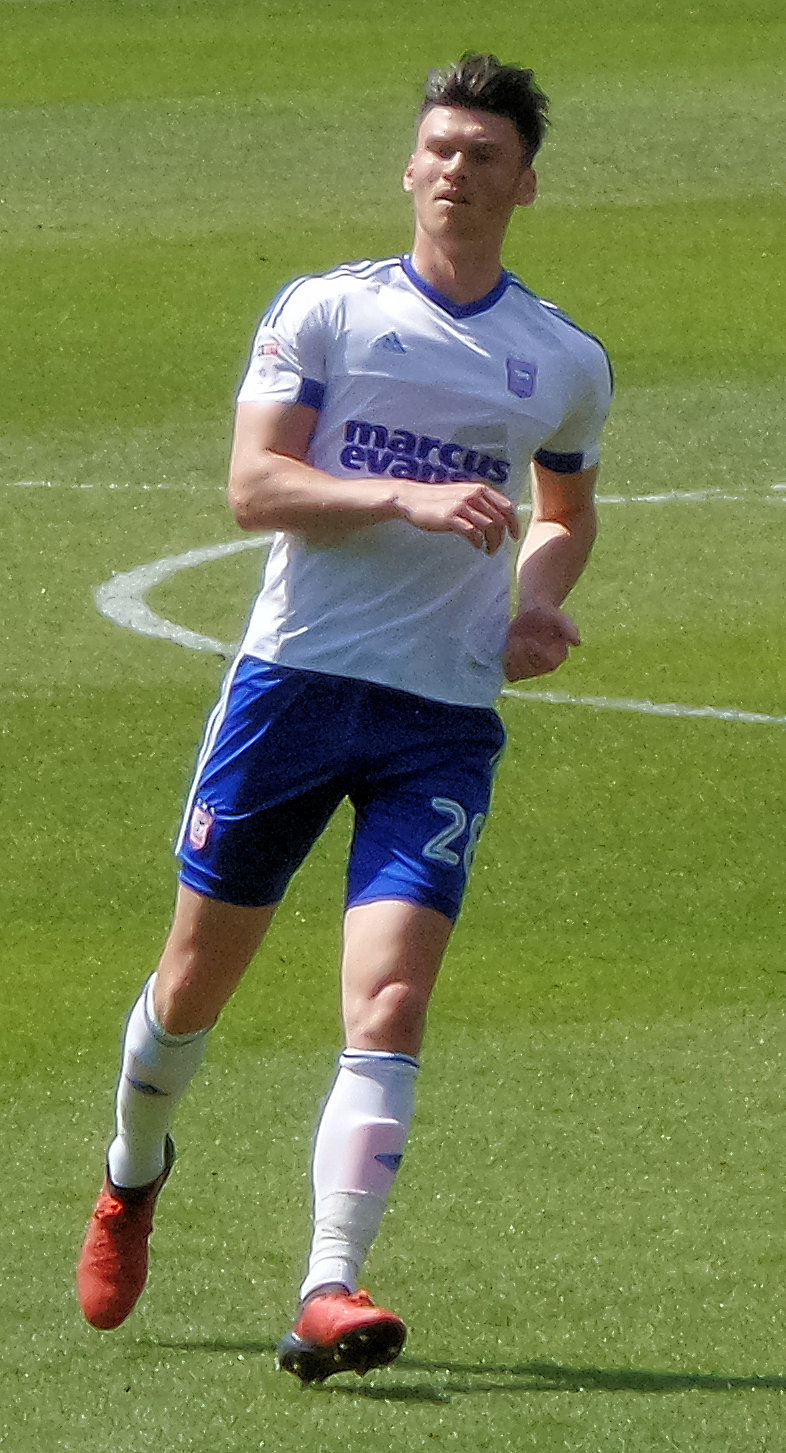 Kieffer Moore playing for Ipswich Town at Nottingham Forest on 7 May 2017